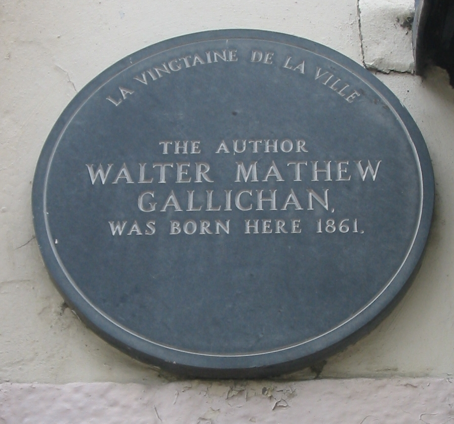 The author Walter Mathew Gallichan was born here 1861